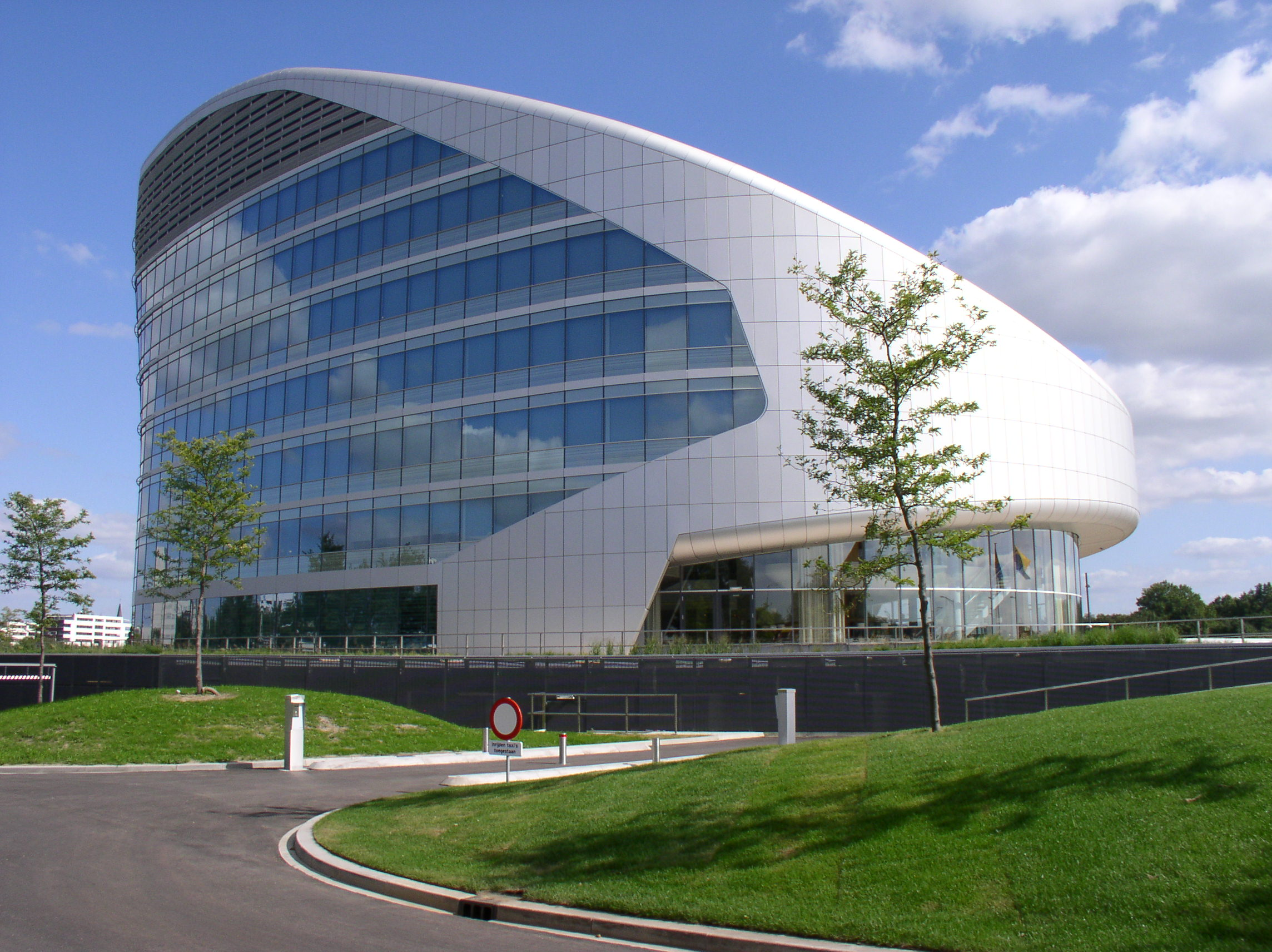 Sabic European head office in Sittard, near the Fortuna stadion.